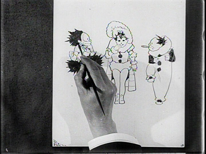 Winsor McCay sketches three of his Little Nemo characters in a still from the 1911 fil Little Nemo